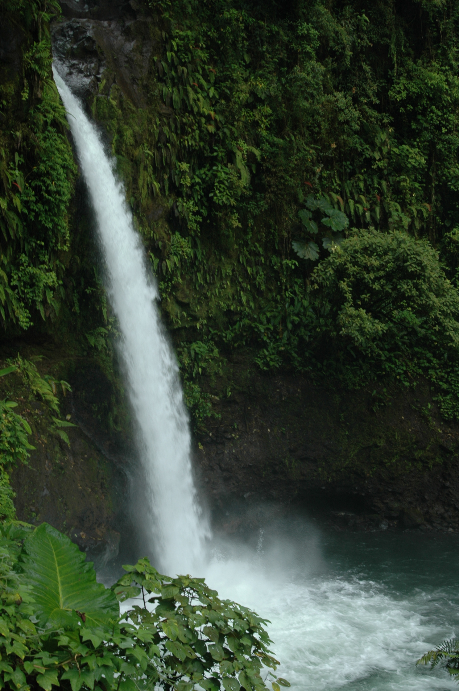 This is the La Paz waterfall in Costa Rica.